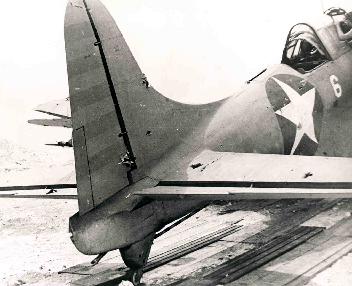 A U.S. Marine Corps Douglas SBD-2 Dauntless of Marine scout bombing squadron VMSB-241 on Midway Atoll, 4 June 1942. Official description: "Rolling off the Douglas Aircraft Company assembly line in El Segundo, California, in December 1940, SBD-2 Dauntless (BuNo 2106) was delivered to bombing squadron VB-2 at Naval Air Station (NAS) San Diego, California, on the last day of 1940. On 10 March 1942, flown by Lt(jg) Mark T. Whittier with AR2C Forest G. Stanley as his gunner, the aircraft joined 103 other planes from USS Lexington (CV-2) and USS Yorktown (CV-5) in a raid against Japanese shipping at Lae and Salamaua in New Guinea. It was then transferred to Marine scout bombing squadron VMSB-241 on Midway Atoll, arriving there with eighteen other SBD-2s on 26 May 1942, on board the aircraft transport USS Kitty Hawk (APV-1). On the morning of 4 June 1942, with 1st Lt Daniel Iverson as pilot and PF1c Wallace Reid as rear gunner, the aircraft was one of sixteen SBD-2s of VMSB-241 launched to attack Japanese aircraft carriers to the west of Midway. After unsuccessfully attacking the carrier Hiryu, enemy fire holed the plane 219 times. It was one of only eight SBD-2s of VMSB-241 to return from the attack against the Japanese fleet. Returned to the US, it was repaired and eventually assigned to the Carrier Qualification Training Unit (CQTU) at NAS Glenview, Illinois. On the morning of 11 June 1943 Marine 2nd Lt Donald A. Douglas Jr. ditched the aircraft in the waters of Lake Michigan during an errant approach to the training carrier USS Sable (IX-81). Recovered in 1994, the aircraft underwent extensive restoration at the U.S. National Museum of Naval Aviation at Pensacola, Florida (USA), before being placed on public display in 2001. Elements of its original paint scheme when delivered to the fleet are still visible on its wings and tail surfaces." (shortened)